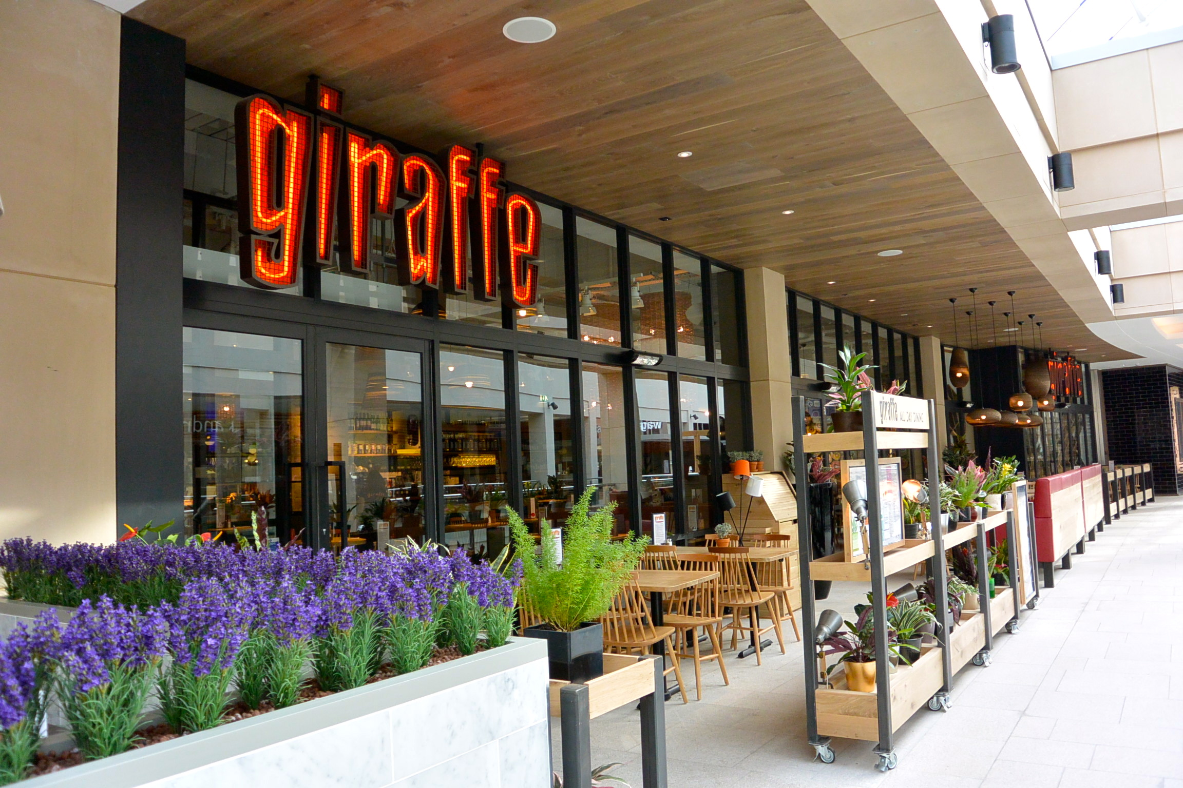 Giraffe, Trinity Leeds opening day, Leeds, West Yorkshire. Taken by Flickr user:E G Focus on Thursday the 21st of March 2013